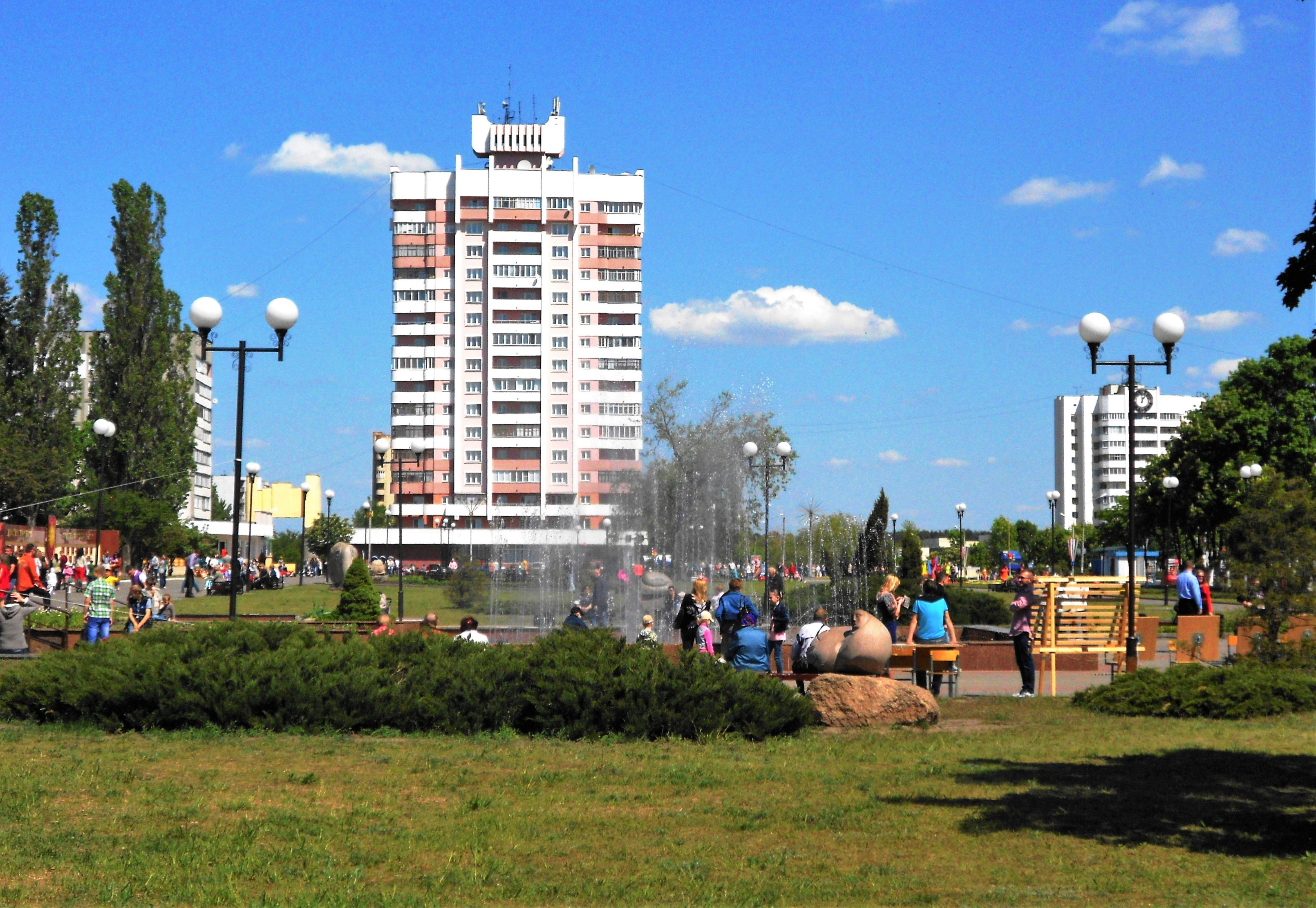 Town of Svietlahorsk, Homieĺ Voblaść, Belarus. In the center of town.